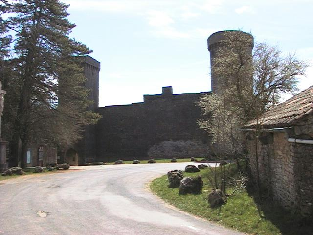 La Couvertoirade, France - main gates